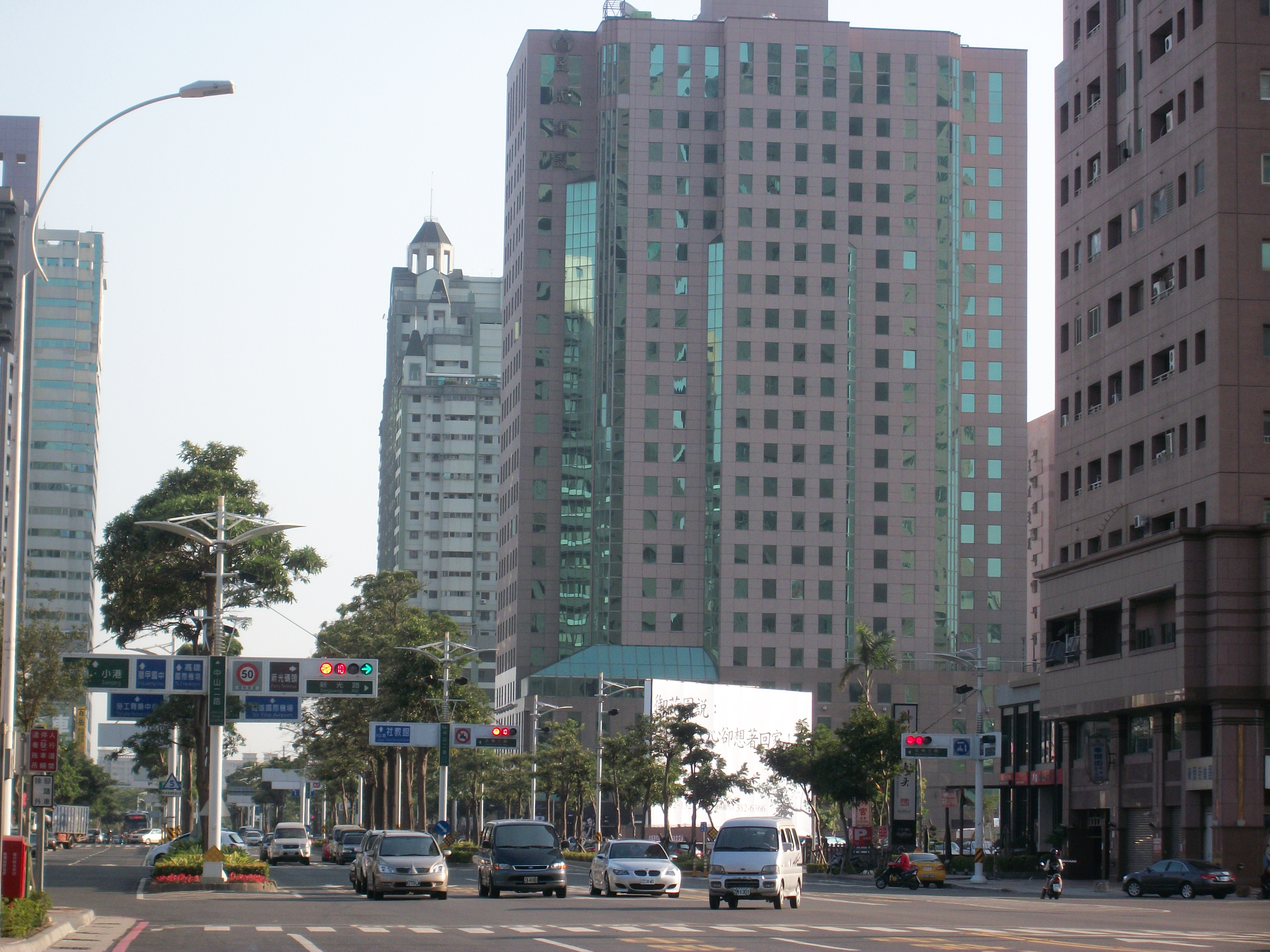 Looking southward alongside the Zhongshan 2nd Road in Kaohsiung City,Taiwan.This photo shows the intersection of Zhongshan 2nd Road and Linsen 3rd Road.